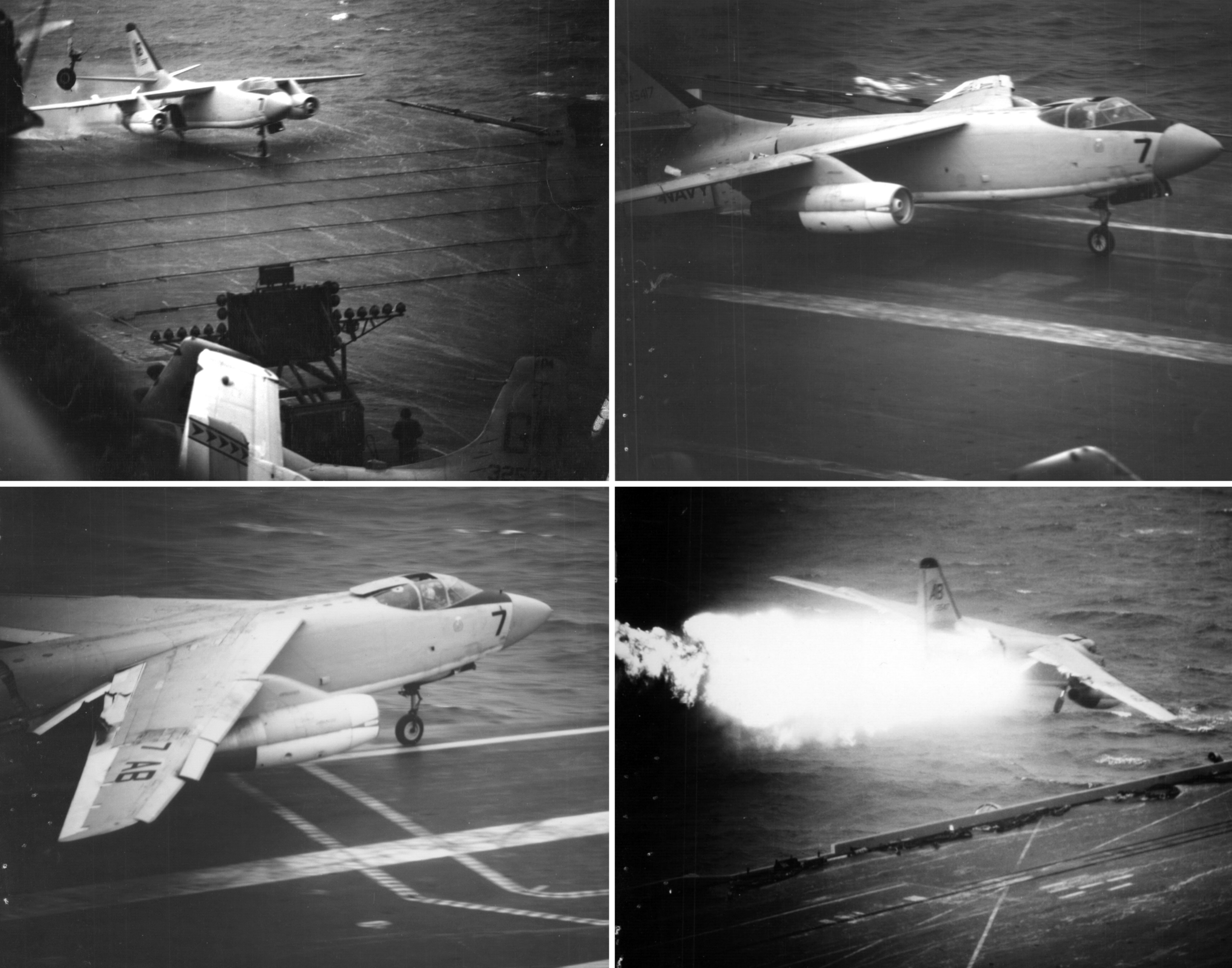 A U.S. Navy Douglas A3D-1 Skywarrior (BuNo 135417) of Heavy Attack Squadron VAH-1 crashing on the deck of the aircraft carrier USS Forrestal (CVA-59) during "Operation Strike Back" in the Norwegan Sea, on 26 September 1957. It was a day landing, second approach, CCA (first approach mode one without); 1.6 km visibility, low, ragged ceiling, intermittent rain showers. After a low approach the aircraft settled at the ramp and the mainmounts and fuselage struck the ramp. The aircraft continued up deck in flames crashing off angle. Parts of the plane struck a parked Douglas AD-5N Skyraider. Only two helmets and one boot were later recovered. It was estimated that one possible contributing factor was that the rain caused the optical illusion of "high ball" (on the landing mirror), and low airspeed. The crew died: CDR Paul Wilson (71 total carrier landings); LTJS Joseph R. Juricic 8/N; and ADC Percy Schafer, third crew member. As a high altitude bomber, the A3D was not equipped with ejection seats.